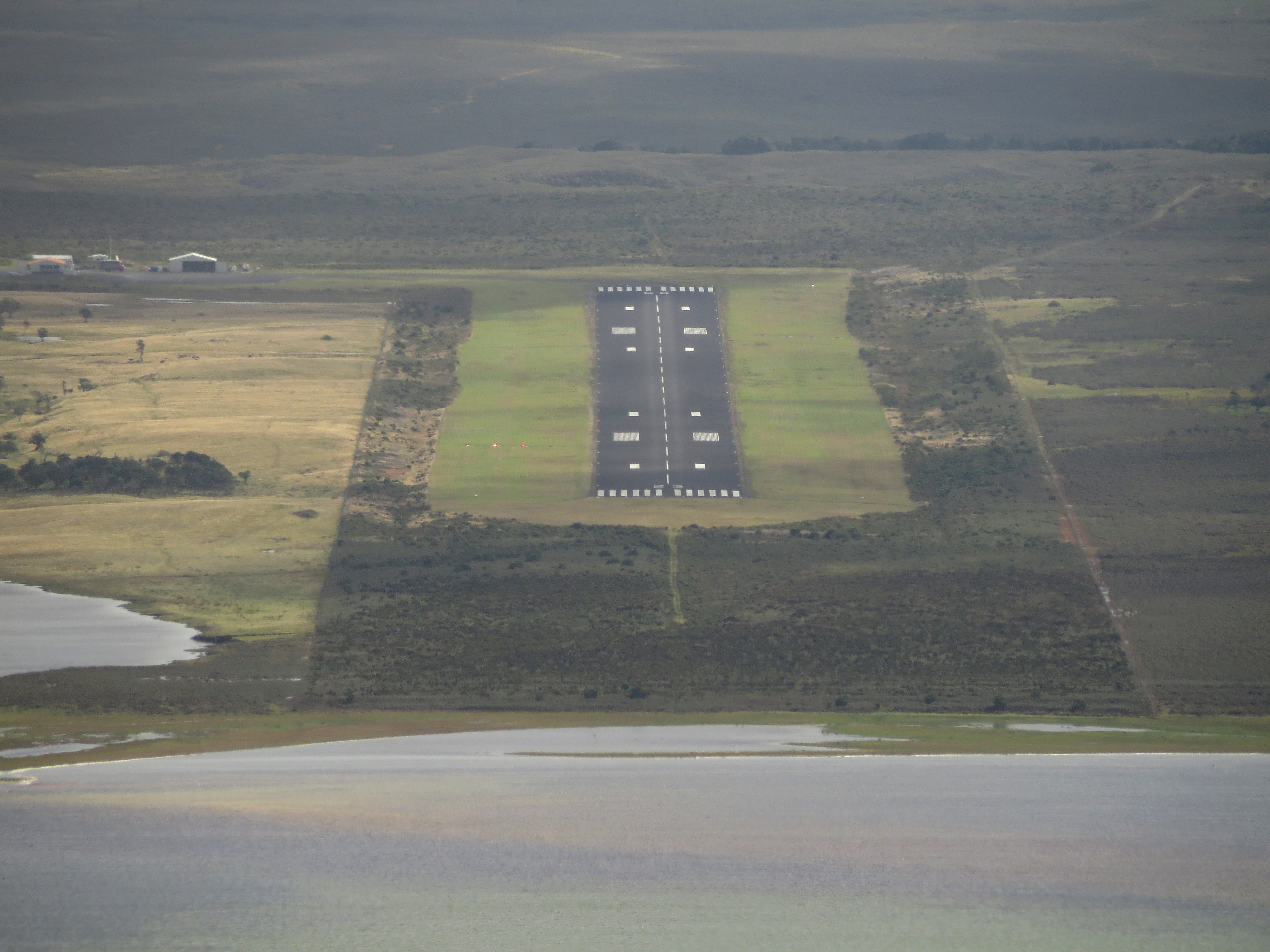 It was a real thrill to see the airport from the cockpit of Air Chathams' Convair 580 as we approached! After this point it was difficult to see the runway as we angled upwards, but the fun didn't end there as we bounced on landing (and I had a literal front-row seat!)